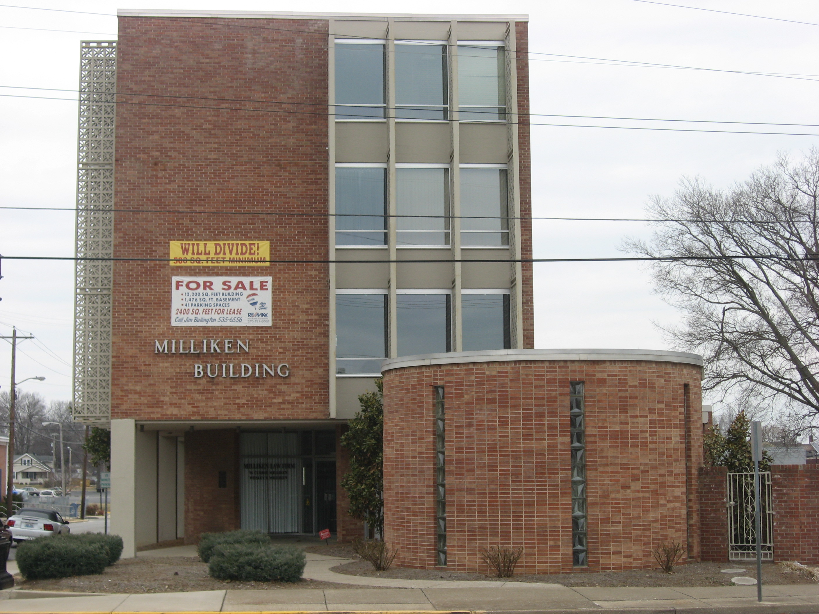 Front of the Milliken Building, located at 1039 College Street in Bowling Green, Kentucky, United States. Built in 1963, it is listed on the National Register of Historic Places.